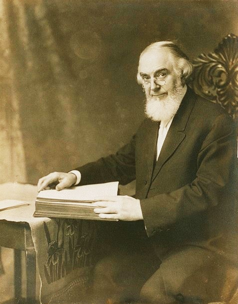 black-white balanced version of Image:Charles Taze Russell.jpg (PD-US old), prepared because my eyes protested against the orig.